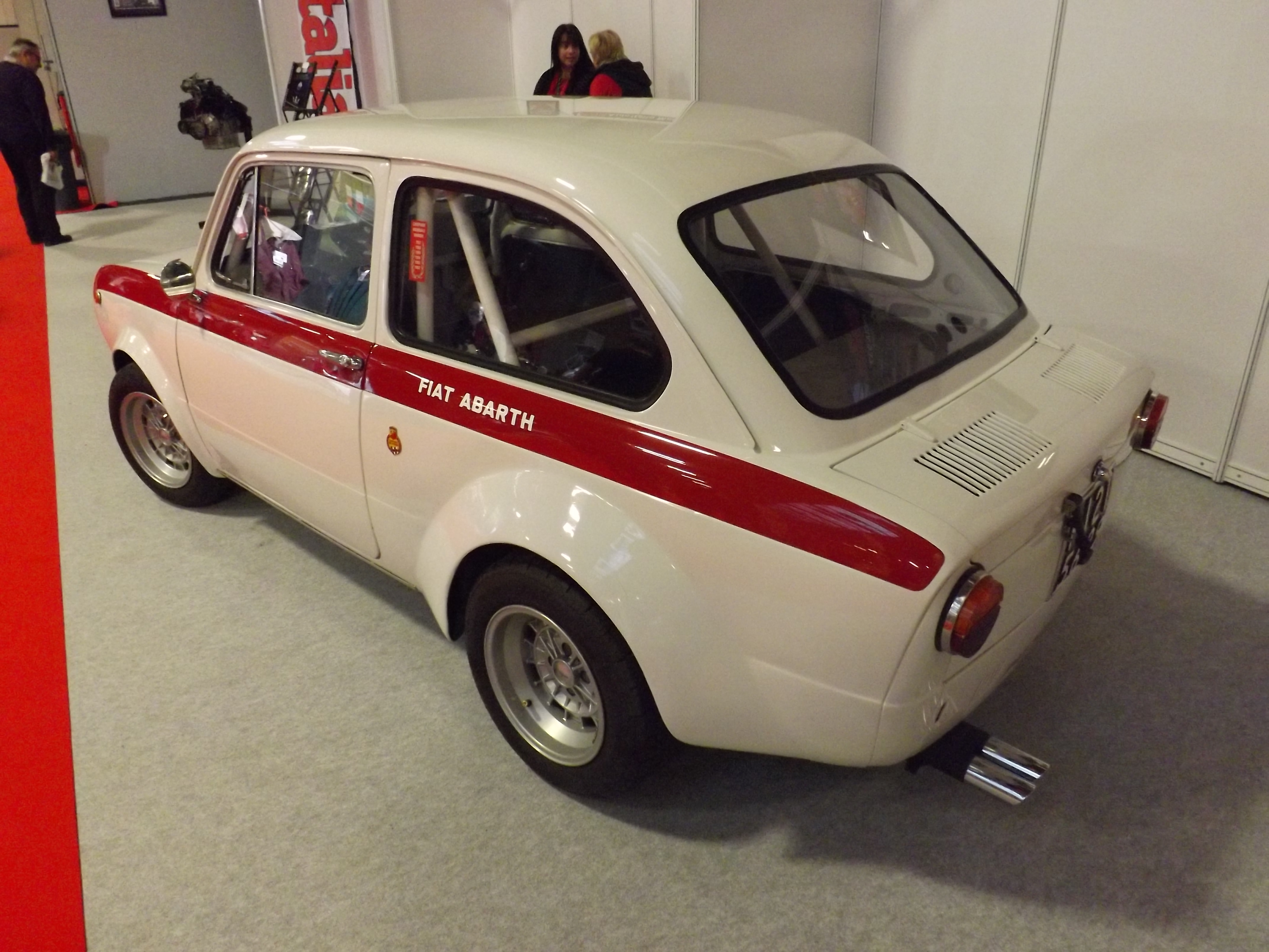 Gorgeous.